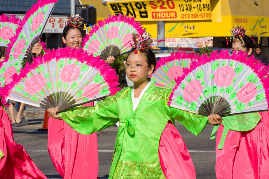 Parade marcher during the 2008 Korean Festival Parade, Koreatown, Los Angeles.